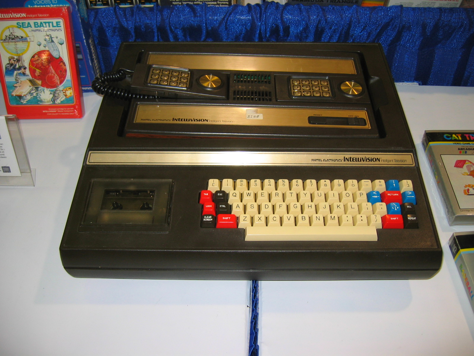 Intellivision with his first keyboard component at the E3 2005.